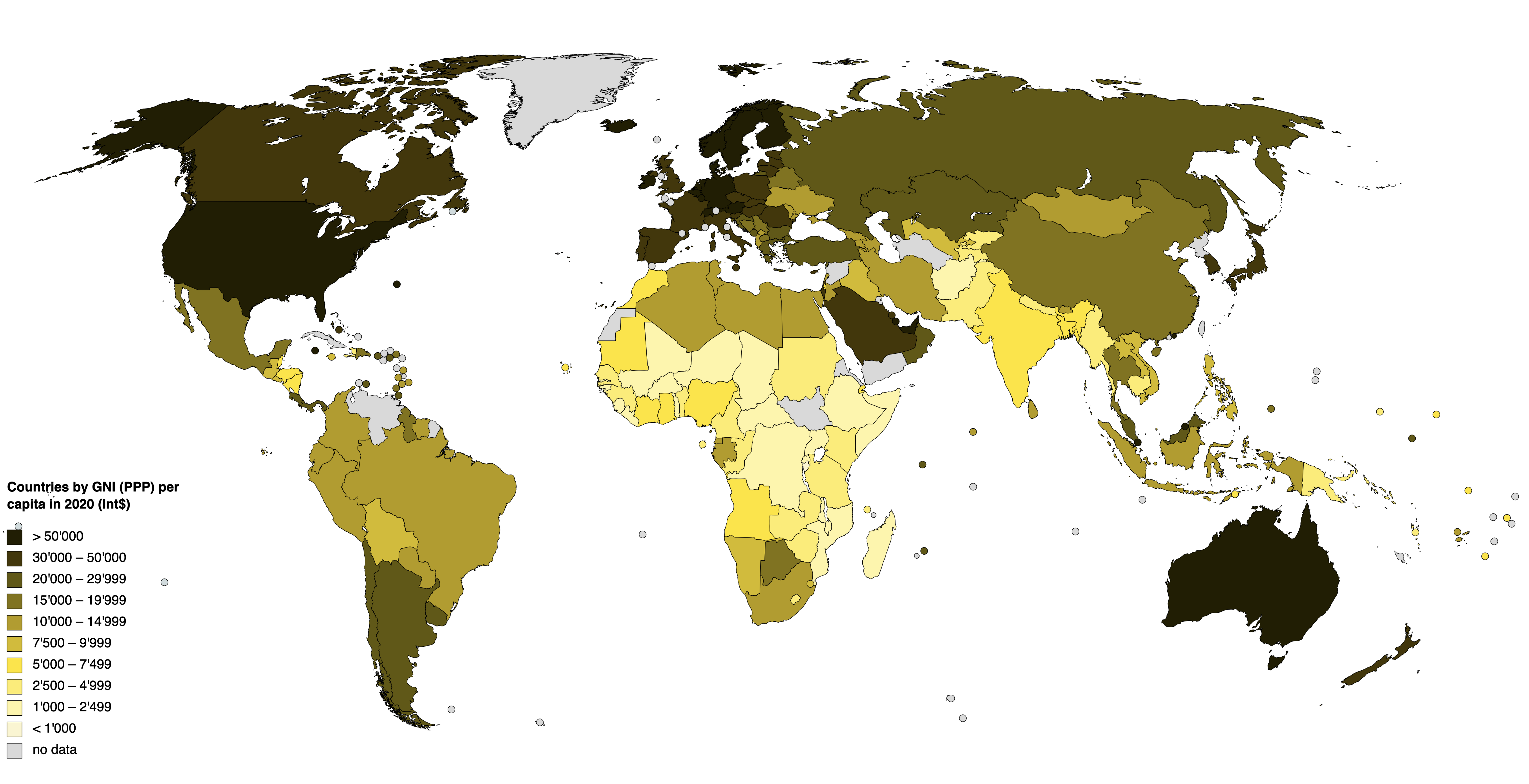 A choropleth world map showing countries by gross national income per capita at purchasing power parity in 2016, measured in current international dollars. Based on data from the World Bank.